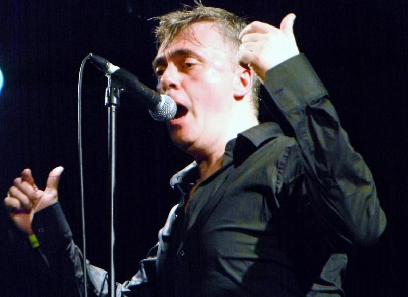 Undertones singer Paul McLoone on stage in Holmfirth, United Kingdom on 14 July 2012